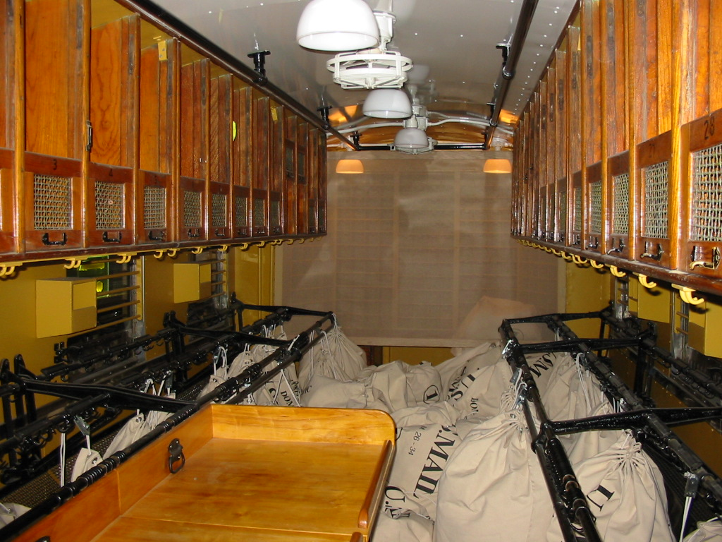 The railway post office section of the Pioneer Zephyr, on display at the Museum of Science and Industry in Chicago.